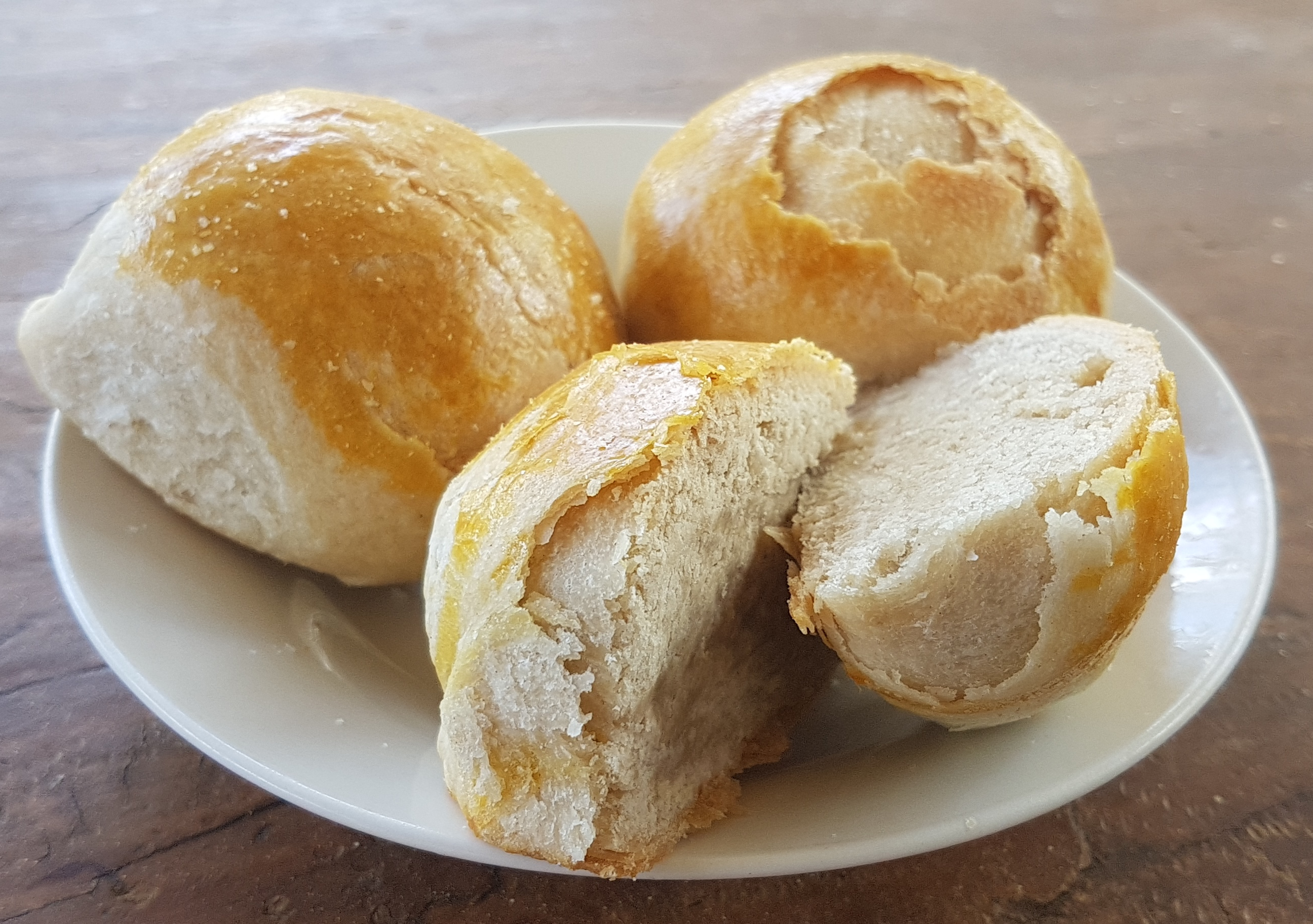 Mongo hopia (mung bean hopia), Philippines